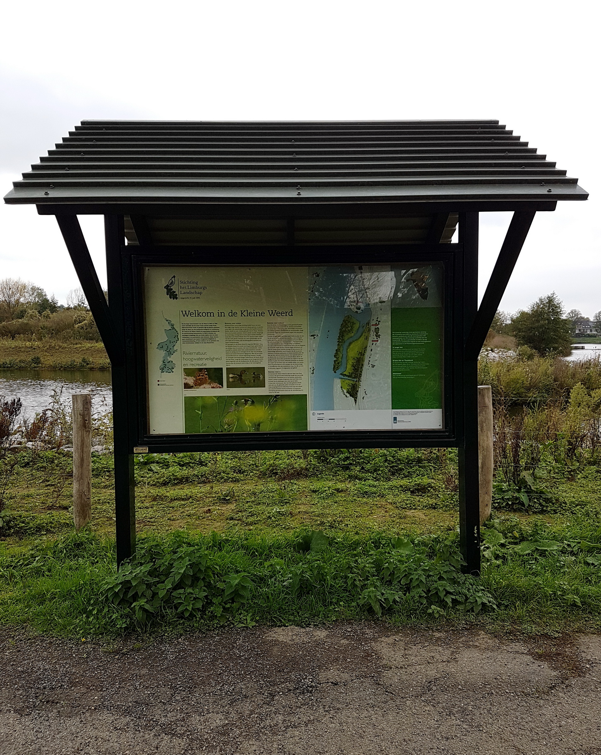 Information panel at the entrance of Kleine Weerd, a small nature reserve (14 ha) on the east bank of the river Meuse in Maastricht, the Netherlands.